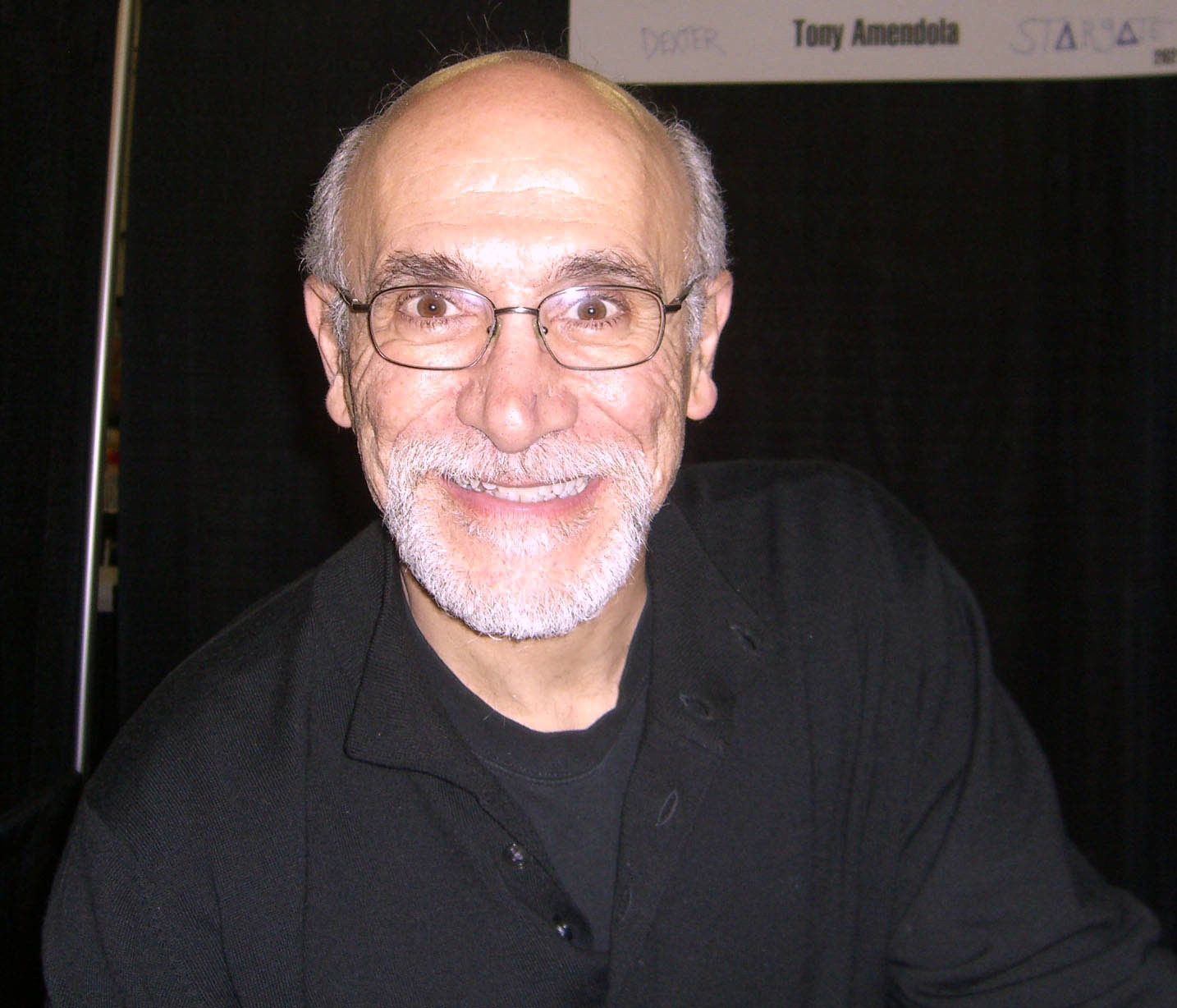 Actor Tony Amendola at the Big Apple Convention in Manhattan. Photographed by Luigi Novi. This photo may only be used if the photographer is properly credited. (See Licensing information below.)